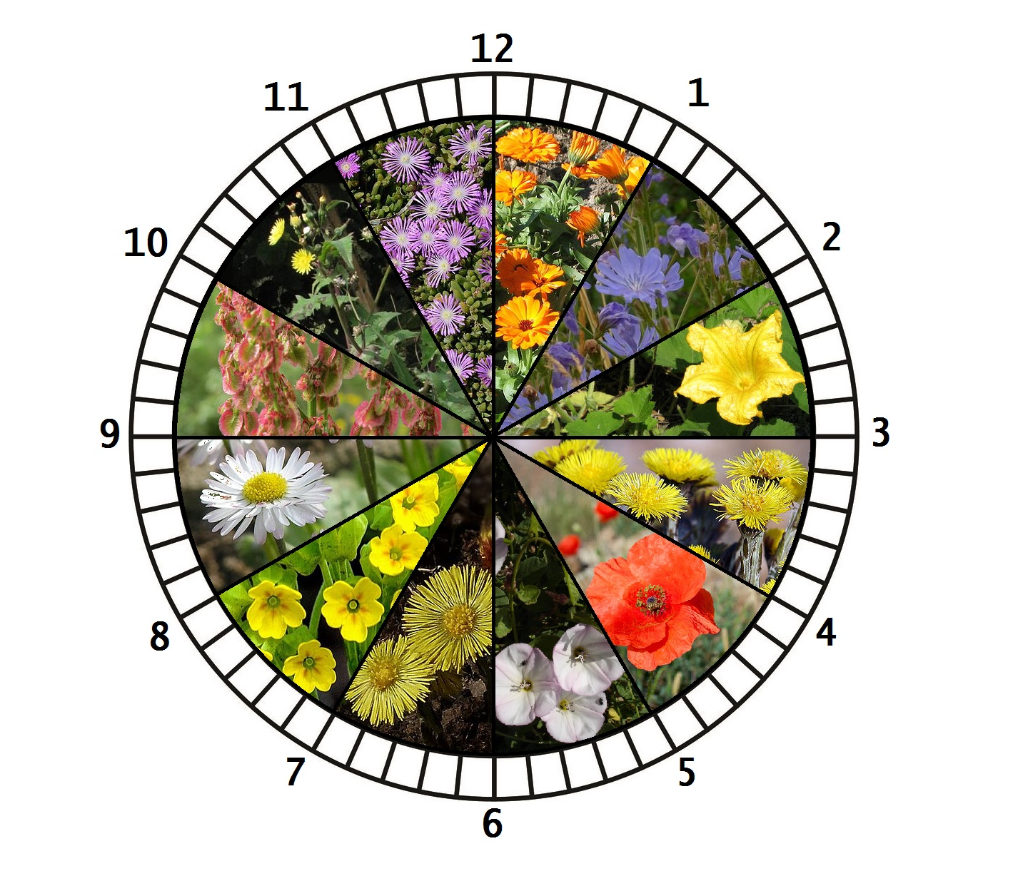 An alternative flower clock for the geographical position of the Central European region 1-2: Cichorium intybus 2-3: Cucurbita 3-4: Tussilago farfara 4-5: Papaver rhoeas 5-6: Convolvulus arvensis 6-7: Tussilago farfara 7-8: Primula veris 8-9: Bellis perennis 9-10: Rumex acetosa 10-11: Sonchus oleraceus 11-12: Delosperma Source: A virágóra